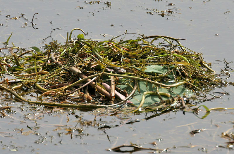 Common Coot Fulica atra in Hyderabad , India.